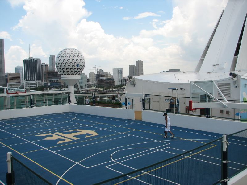 the basketball court on Freedom of the Seas